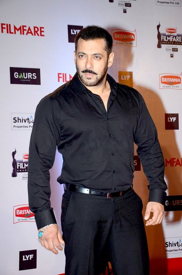 Image of Salman Khan